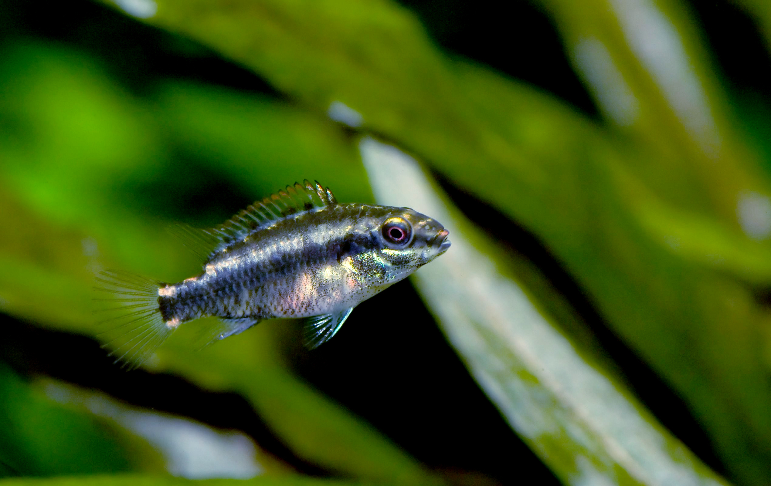 Kribensis, juvenile, approximately 4-6 weeks old